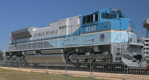 EMD SD70ACe Union Pacific 4141Photo by Ken WhiteheadOct 22, 2005College Station, TX, USAPresident Geo H W Bush Presidential Library exhibit For Union Pacific 4141 article